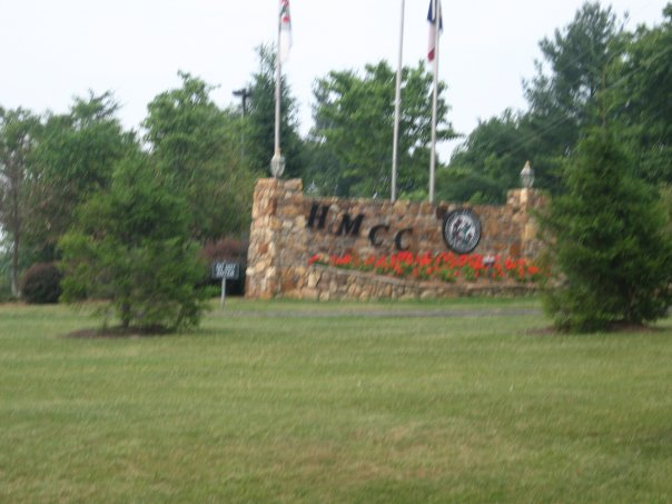 High Meadows Country Club in Roaring Gap, North Carolina